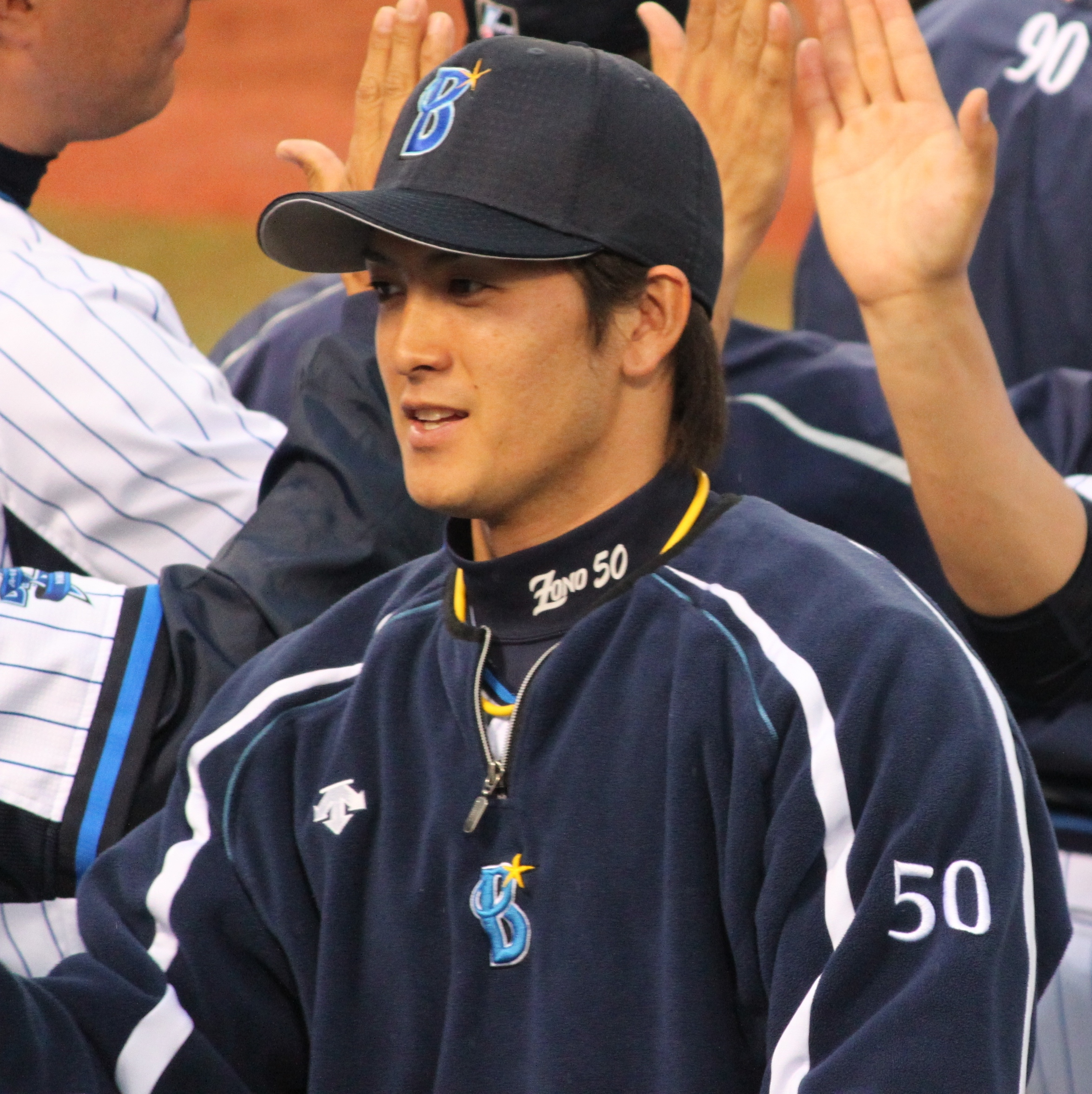 Tatsuya Shimozono, outfielder of the Yokohama DeNA BayStars, at Yokohama Stadium.